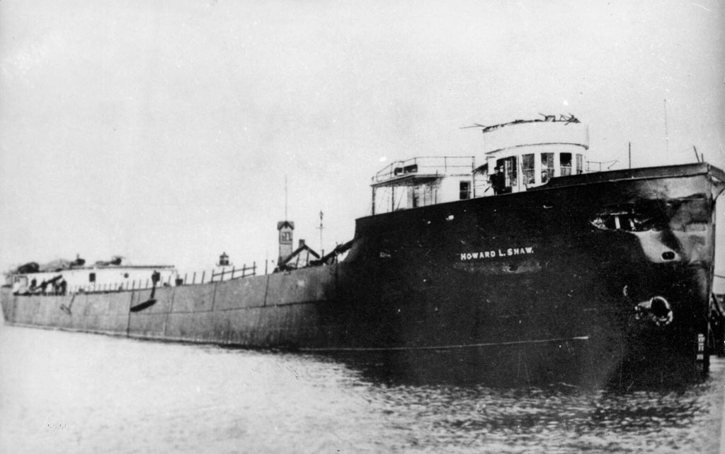 The Howard L. Shaw after her collision with the steamer Coralia and the barge Maia